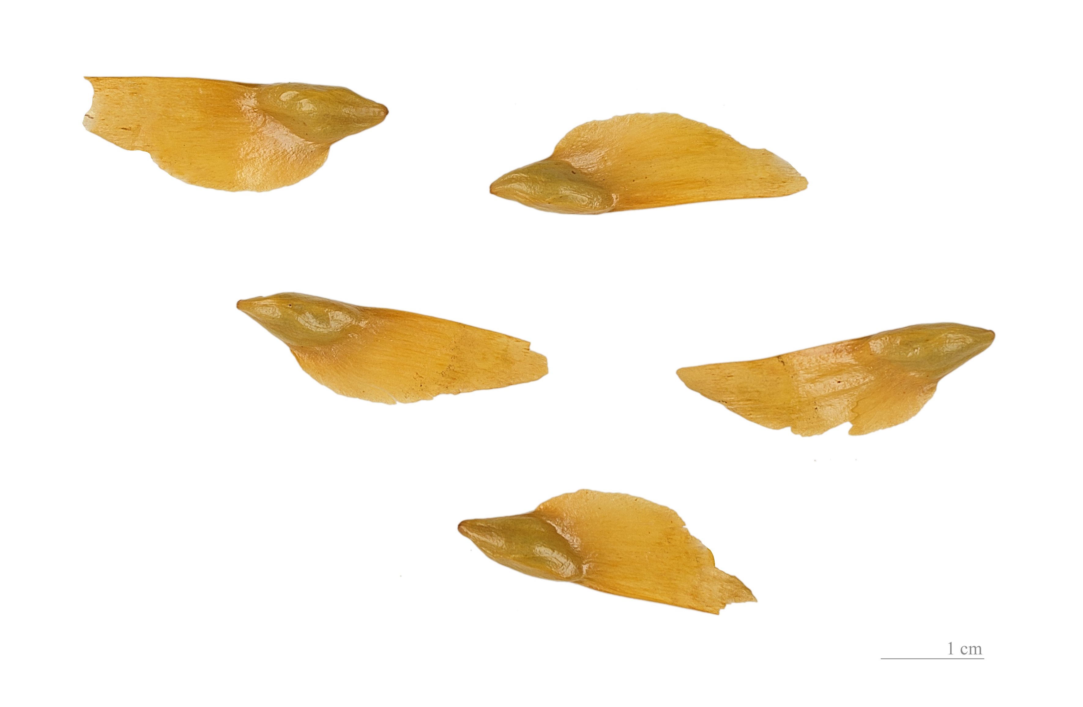 Seed of Keteleeria evelyniana.